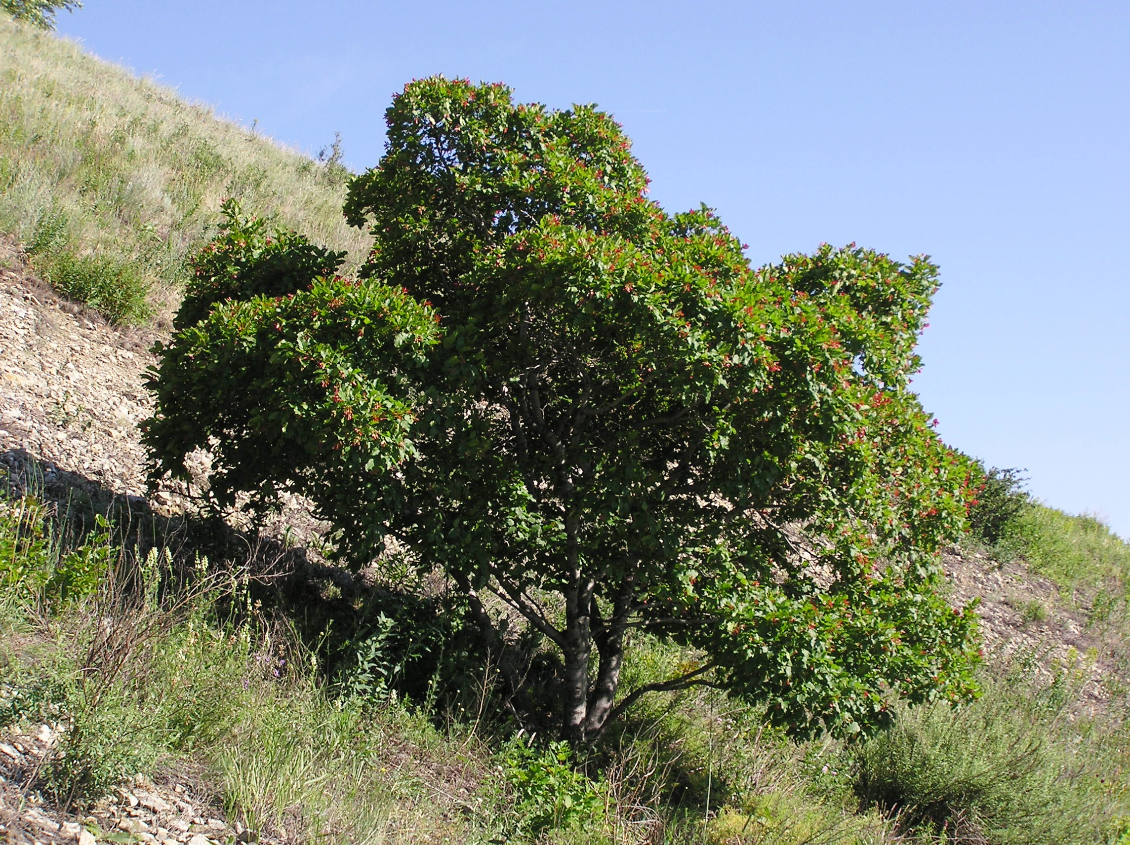 Acer tataricum L. (Tatar Maple or Tatarian Maple). Habitat: south-western rocky slope. Vicinity of Saratov city, Russia.